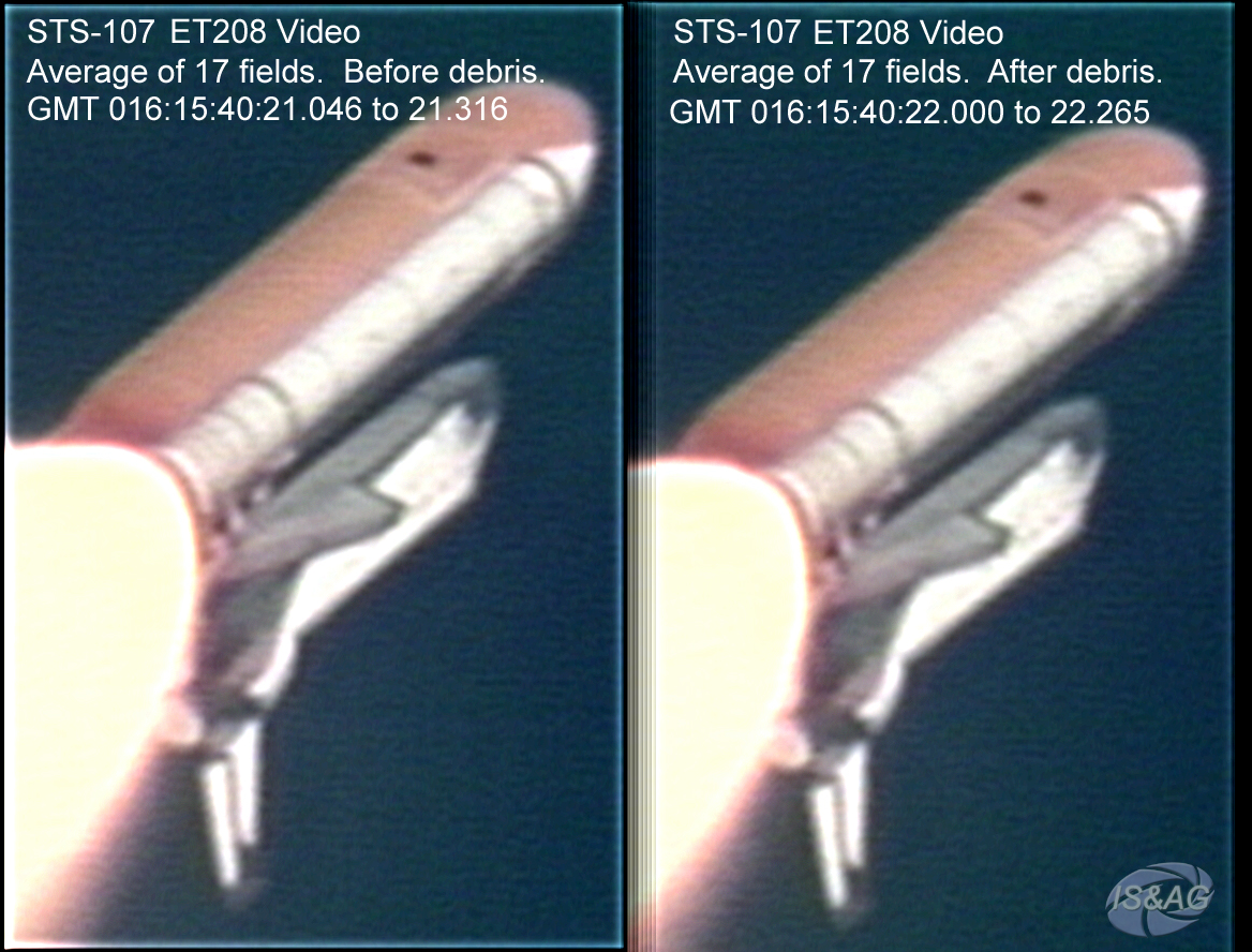 JSC2003-E-06822 –– Two composite images of Columbia during ascent. The images are both derived from an average of 17 video fields totalling about one-quarter of a second of video. The left image is taken from video before a debris strike recorded by other cameras. The one on the right is taken from video after a debris strike recorded by other cameras. The imagery from video was of too low resolution, however, to be significant for use in an engineering analysis that was performed during Columbia's flight regarding the debris strike